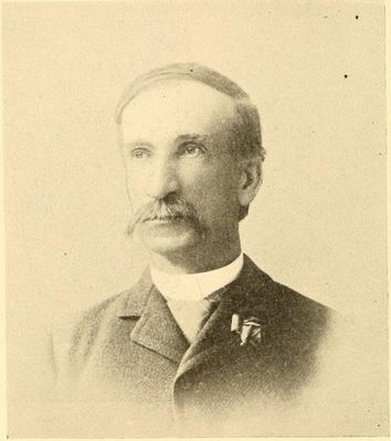 William Connell (Pennsylvania politician)